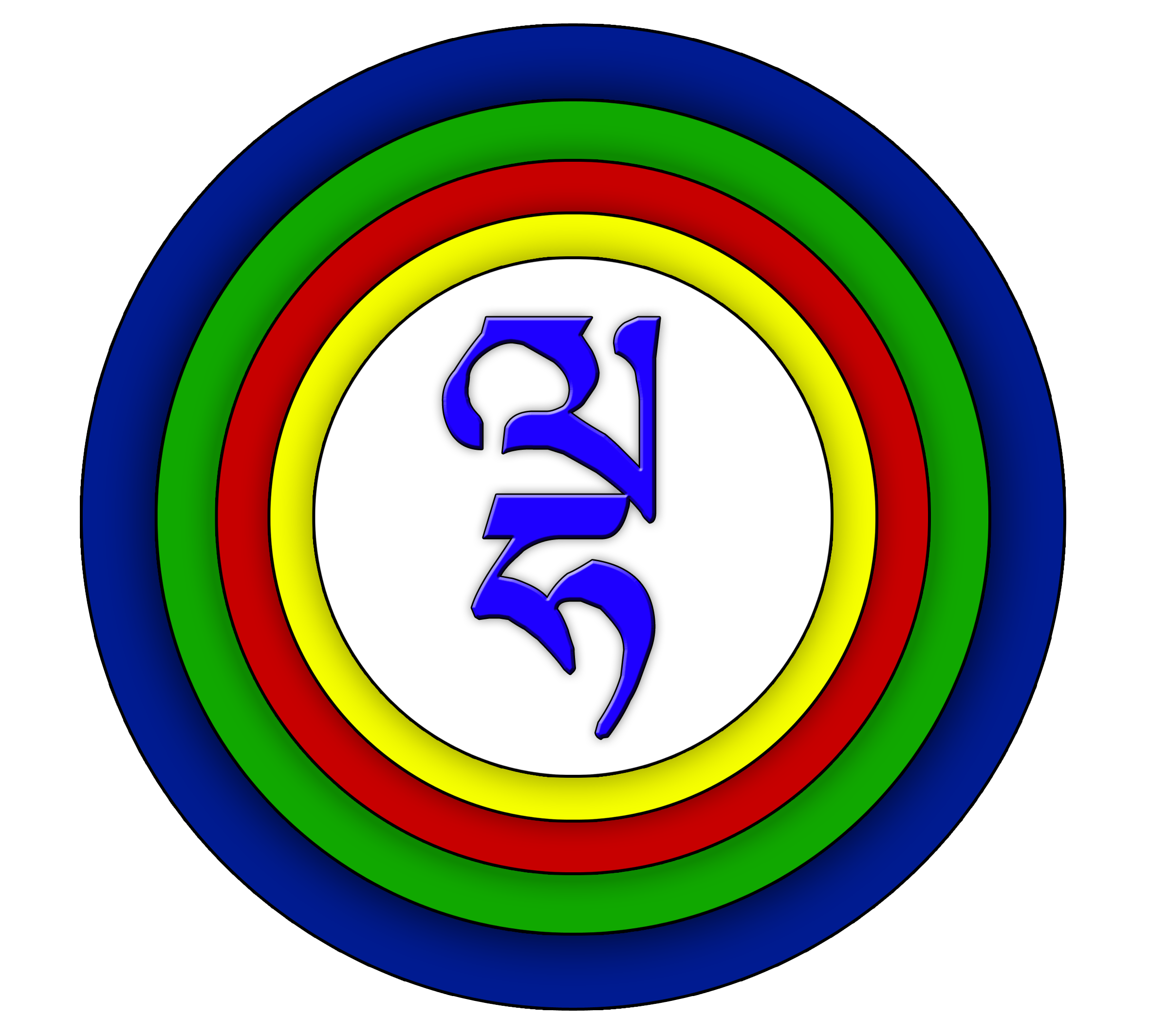 This is a picture of the logo of Lha Charitable trust which is a non profit organisation headed from Mc Leod Ganj, Upper Dharamsala, India.